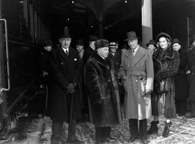 (L.-r.:) Sir S. Redfern, Secretary to the Governor-General; Rt. Hon. W.L. Mackenzie King, Prime Minister; James H.R. Cromwell, U.S. Minister to Canada; and Mrs. Cromwell.